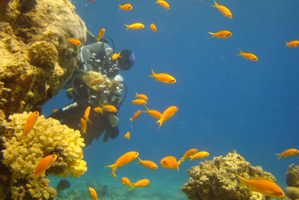 Diving in Yam Sof, Geography of Israel